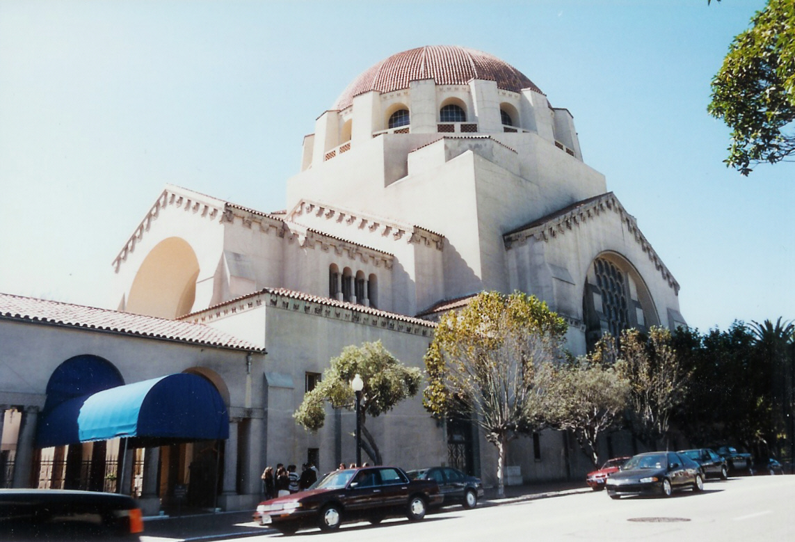 Congregation Emanu-El, 2 Lake Street, San Francisco, dedicated 1926 (picture taken 1999)